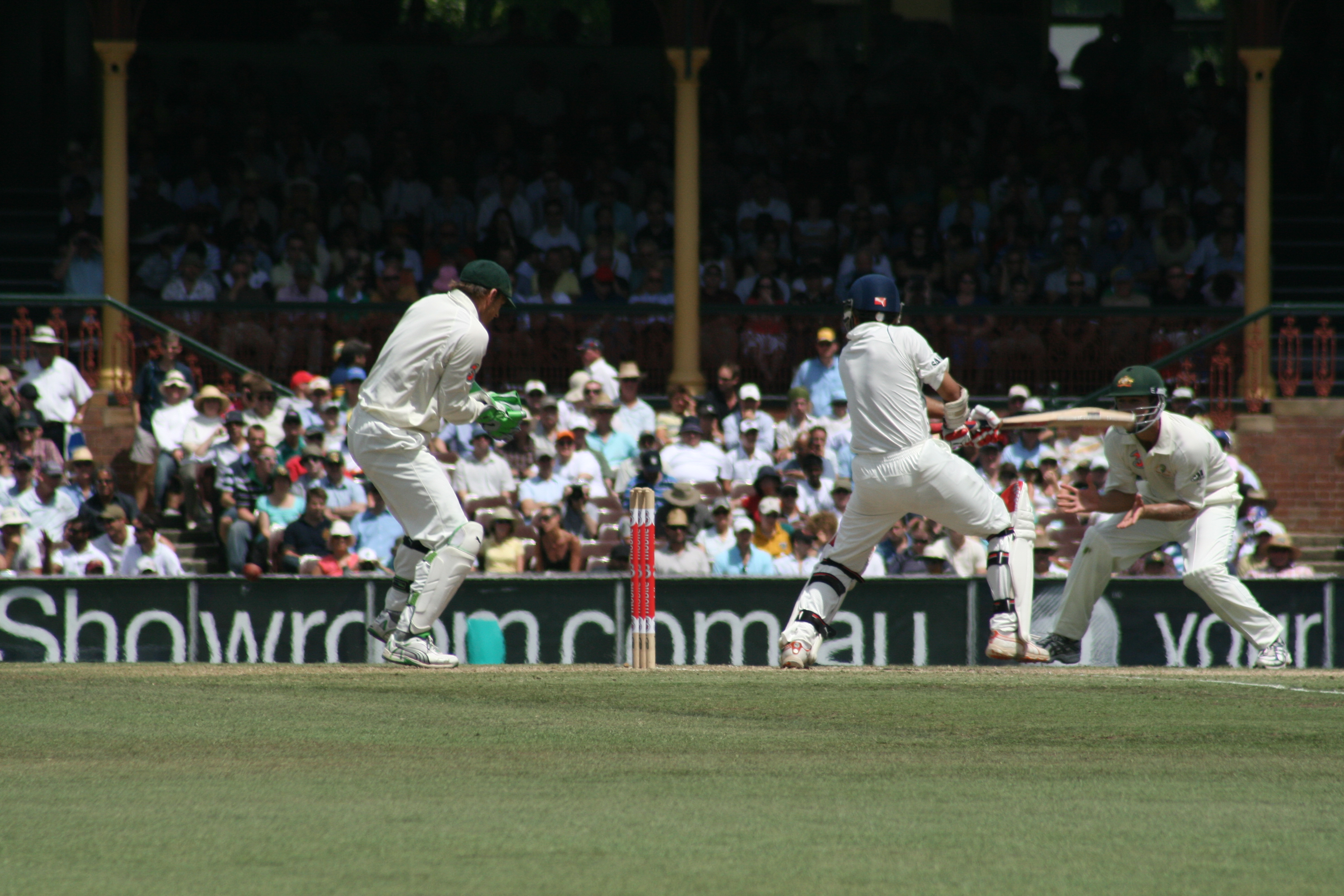 Sourav Ganguly takes a shot - the ball is going towards gully,and for a boundary- Day 3 at SCG, India vs Australia, 4th Jan 2008